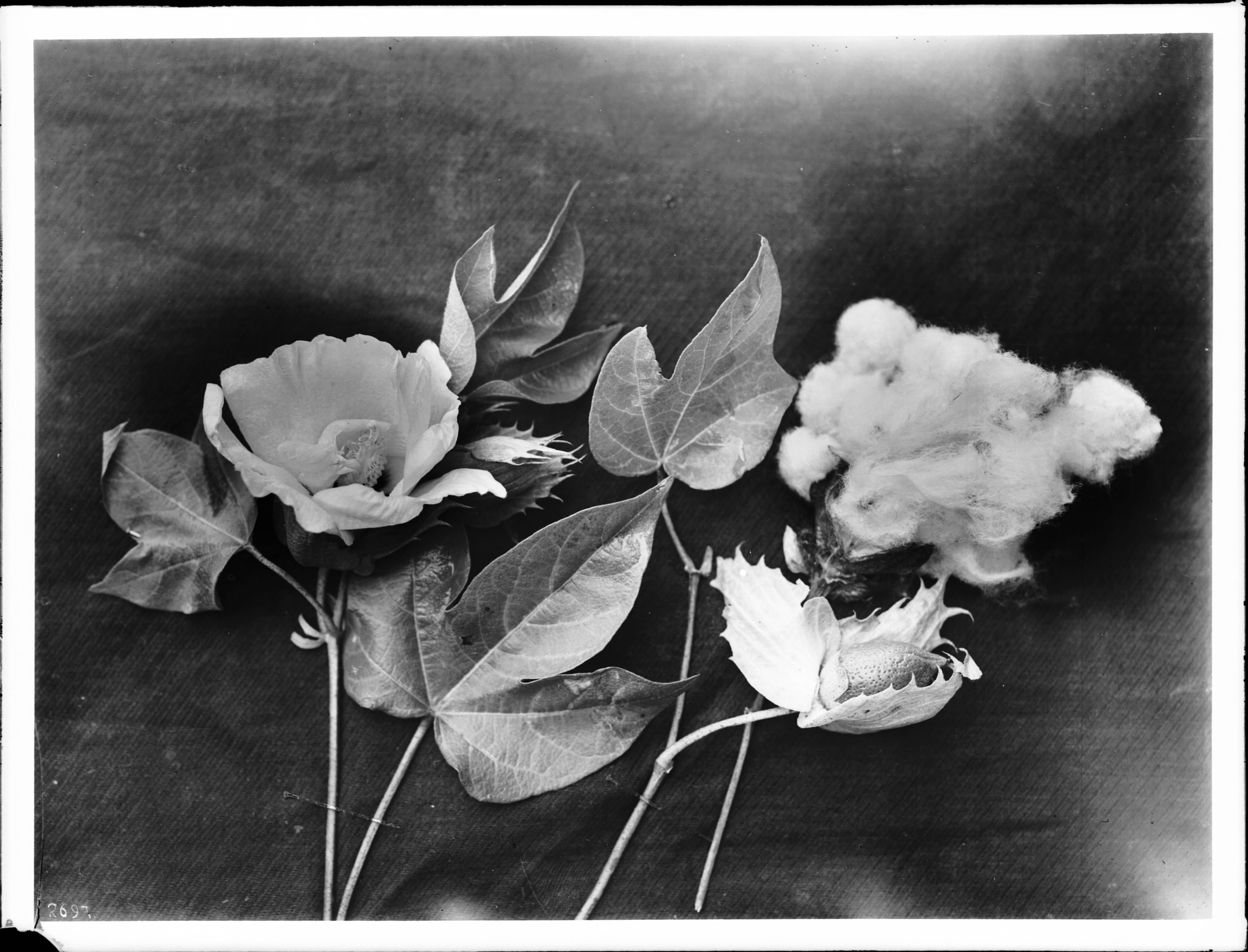 Cotton close-up view, Imperial Valley, ca.1910-1925 Photograph of a close-up of a specimen of a cotton plant (Egyptian cotton), or flax, showing the flower and boll, Imperial Valley, California, ca.1910-1925. Still on the stem, several leaves are also present. On a dark neutral background. Call number: CHS-2697 Photographer: Pierce, C.C. (Charles C.), 1861-1946 Filename: CHS-2697 Coverage date: 1910/1925 Part of collection: California Historical Society Collection, 1860-1960 Format: glass plate negatives Type: images Part of subcollection: Title Insurance and Trust, and C.C. Pierce Photography Collection, 1860-1960 Repository name: USC Libraries Special Collections Accession number: 2697 Microfiche number: 1-117-30; 1-106-4 Archival file: chs_Volume57/CHS-2697.tiff Repository address: Doheny Memorial Library, Los Angeles, CA 90089-0189 Geographic subject (country): USA Format (aacr2): 4 photographs : glass photonegative, photoprints, b&w ; 17 x 22 cm. Rights: Digitally reproduced by the USC Digital Library; From the California Historical Society Collection at the University of Southern California Subject (adlf): agricultural sites Project: USC Repository Contributing entity: California Historical Society Date created: 1910/1925 Publisher (of the digital version): University of Southern California. Libraries Format (aat): photographs Geographic subject (state): California Subject (file heading): Agriculture -- Crops -- Cotton; Imperial County -- General; Industry -- Fiber Legacy record ID: chs-m7245; USC-1-1-1-7374; USC-1-1-1-9147; USC-1-1-1-12081 Access conditions: Send requests to address or e-mail given. Phone (213) 821-2366; fax (213) 740-2343. Geographic subject (county): Imperial Subject (lcsh): Agriculture; Cotton; Plant fiber industry